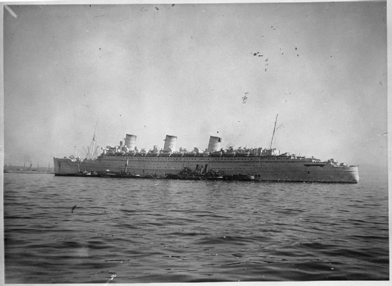 Ss Queen Mary At anchor with vessels alongside